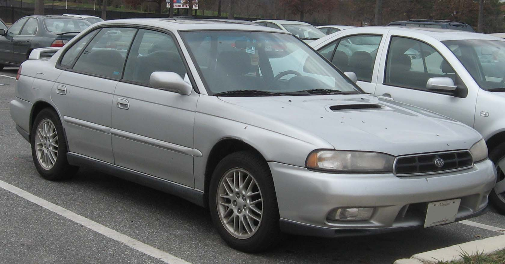 1997-1999 Subaru Legacy 2.5 GT Limited photographed in College Park, Maryland, USA.